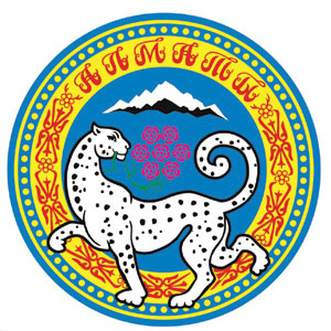 Coat of arms of Almaty, Kazakhstan since January 22, 2010. the difference from the previous one is 7 but not 6 apple flowers